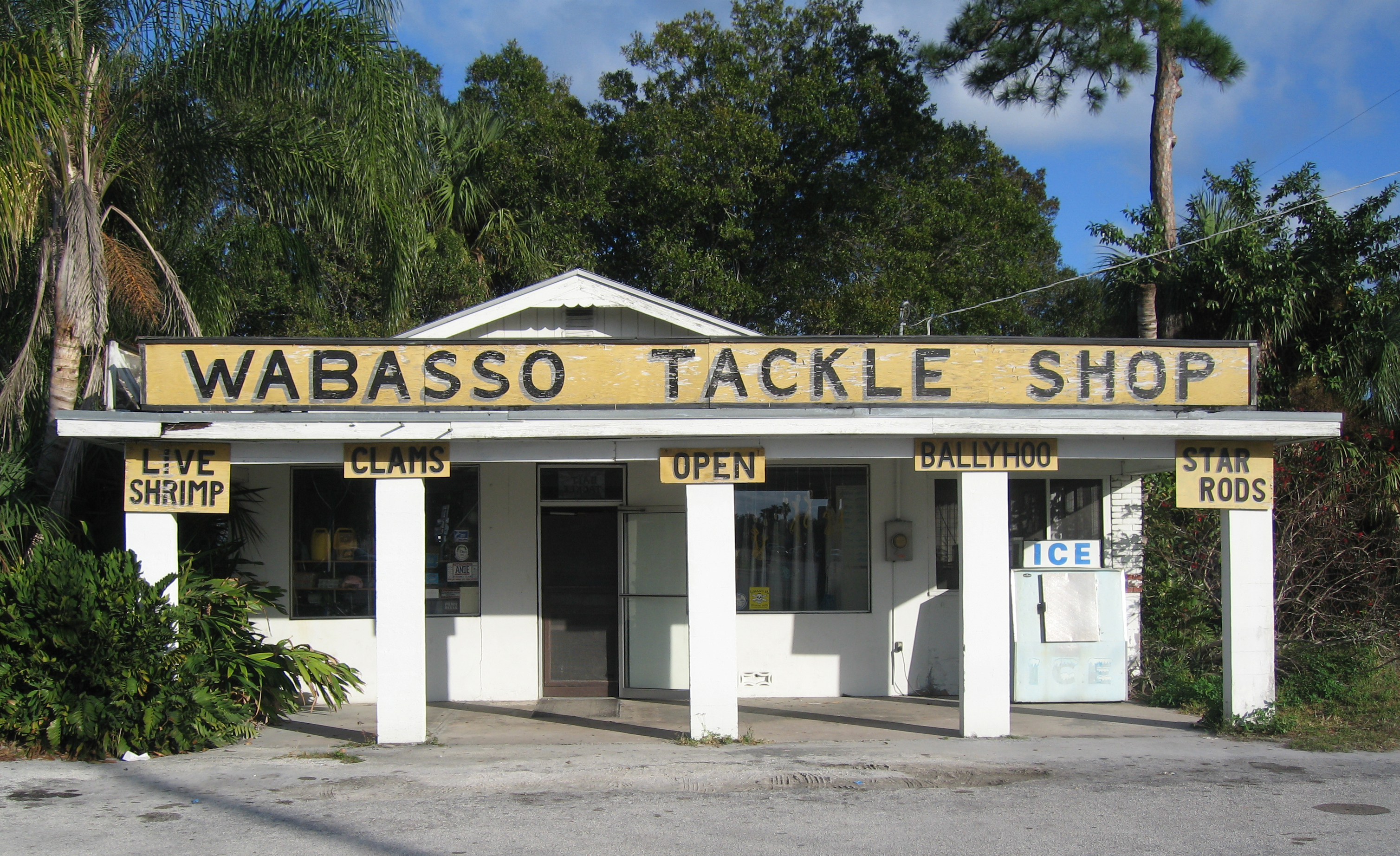 Wabasso Tackle Shop, 4720 85th Street, Wabasso, Florida.